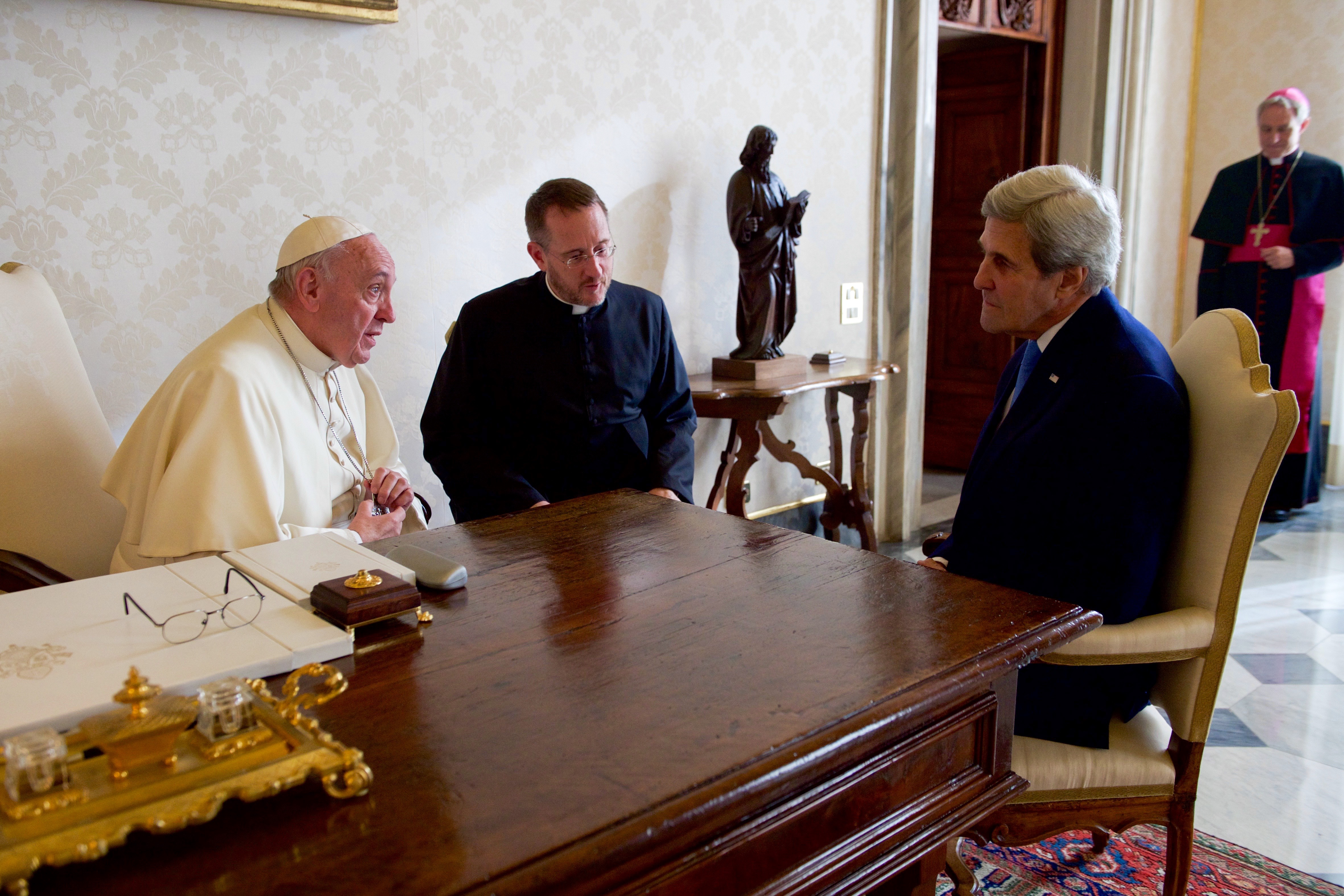 U.S. Secretary of State John Kerry sits with Pope Francis and his translator on December 2, 2016, before a one-on-one meeting in the Papal Apartments at the Vatican in Vatican City. [State Department photo/ Public Domain]